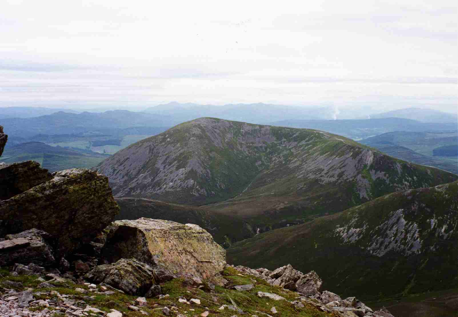 Personal photograph taken by Mick Knapton in July 19995